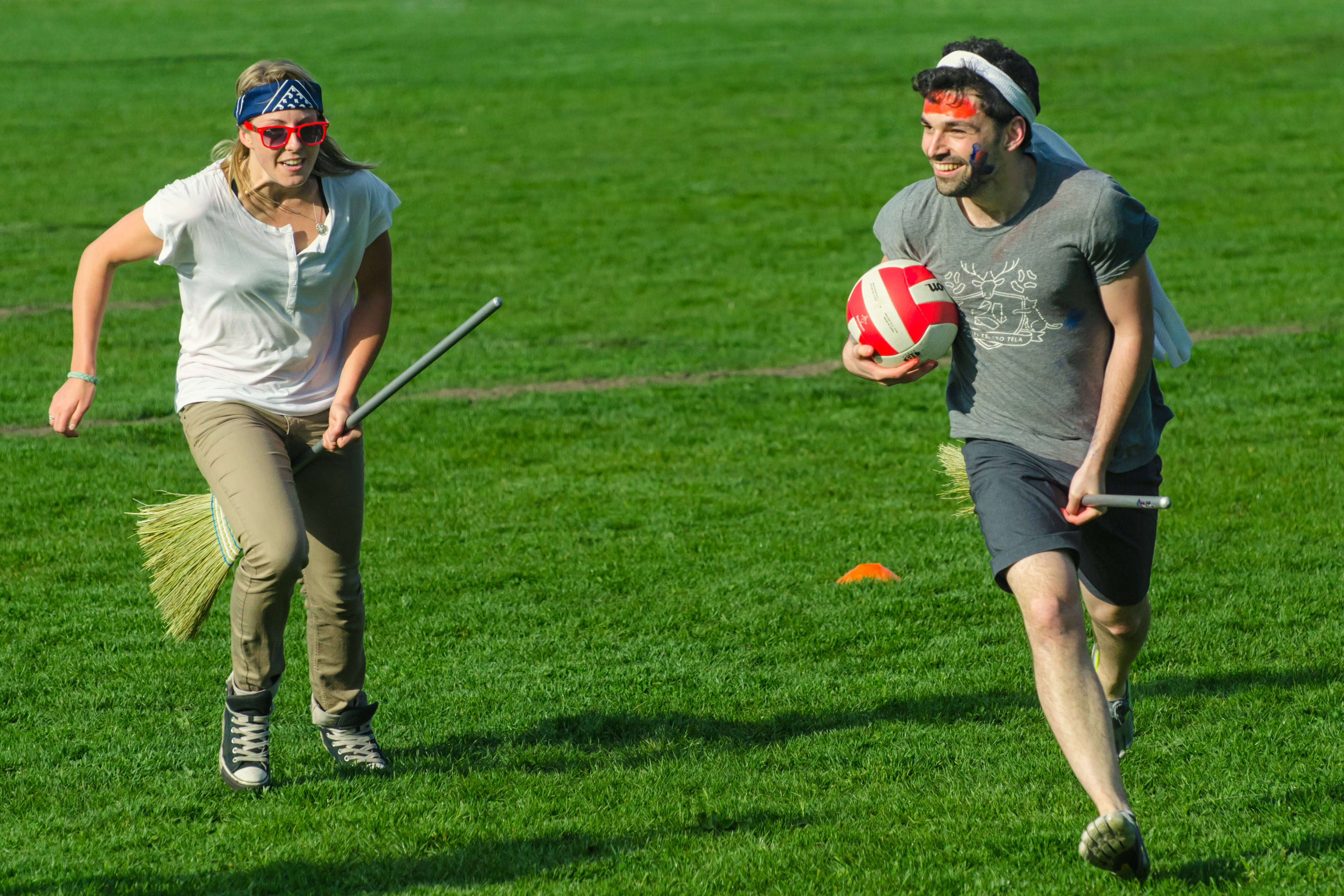 Amateurs Muggle Quidditch match held between Mobify and Hootsuite companies in Jonathan Rogers Park Vancouver, BC on May 6, 2014 Red ball represents Bludger and white one is a Quaffle